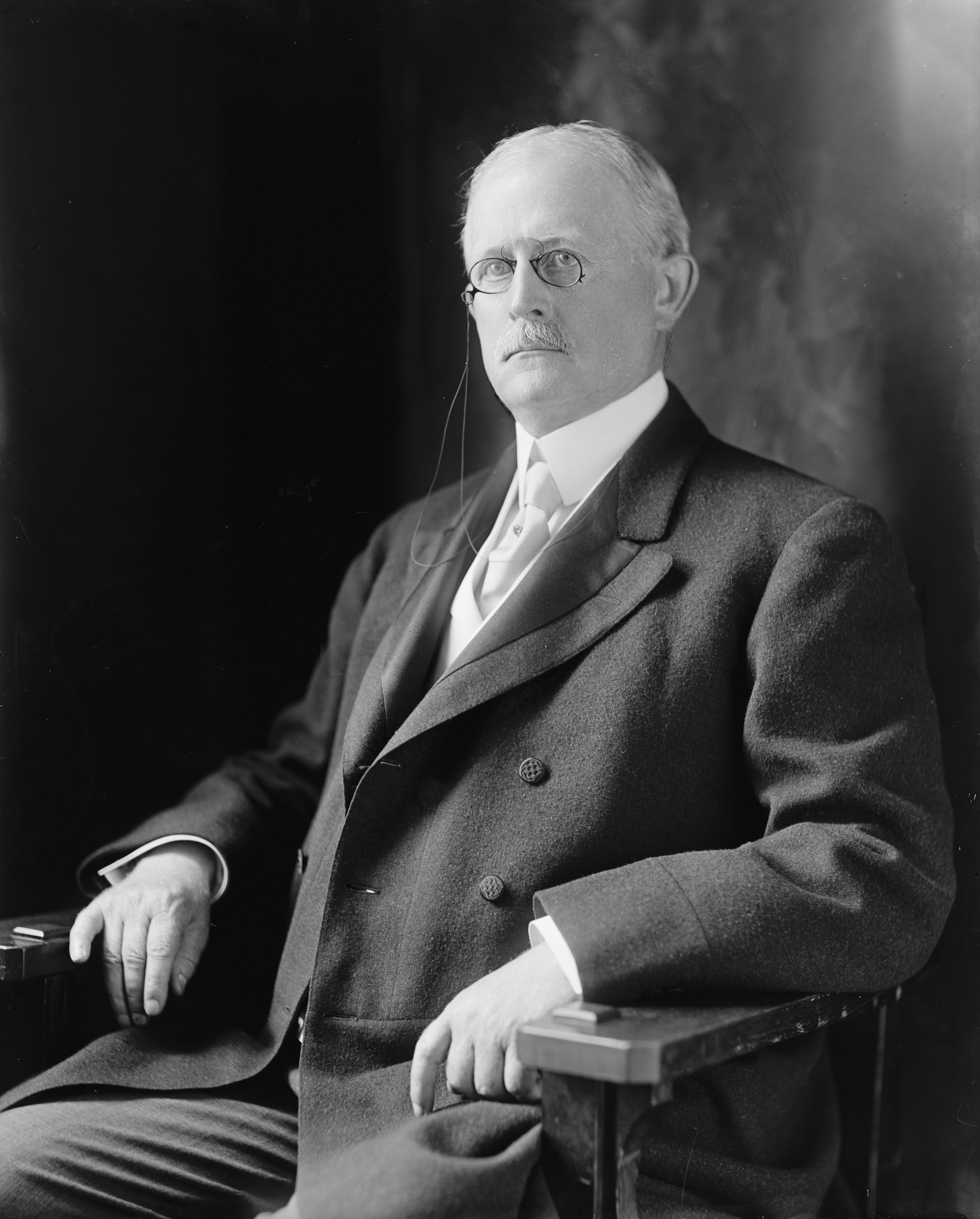 Title: REYNOLDS, J.M. HONORABLE Abstract/medium: 1 negative : glass ; 8 x 10 in. or smaller